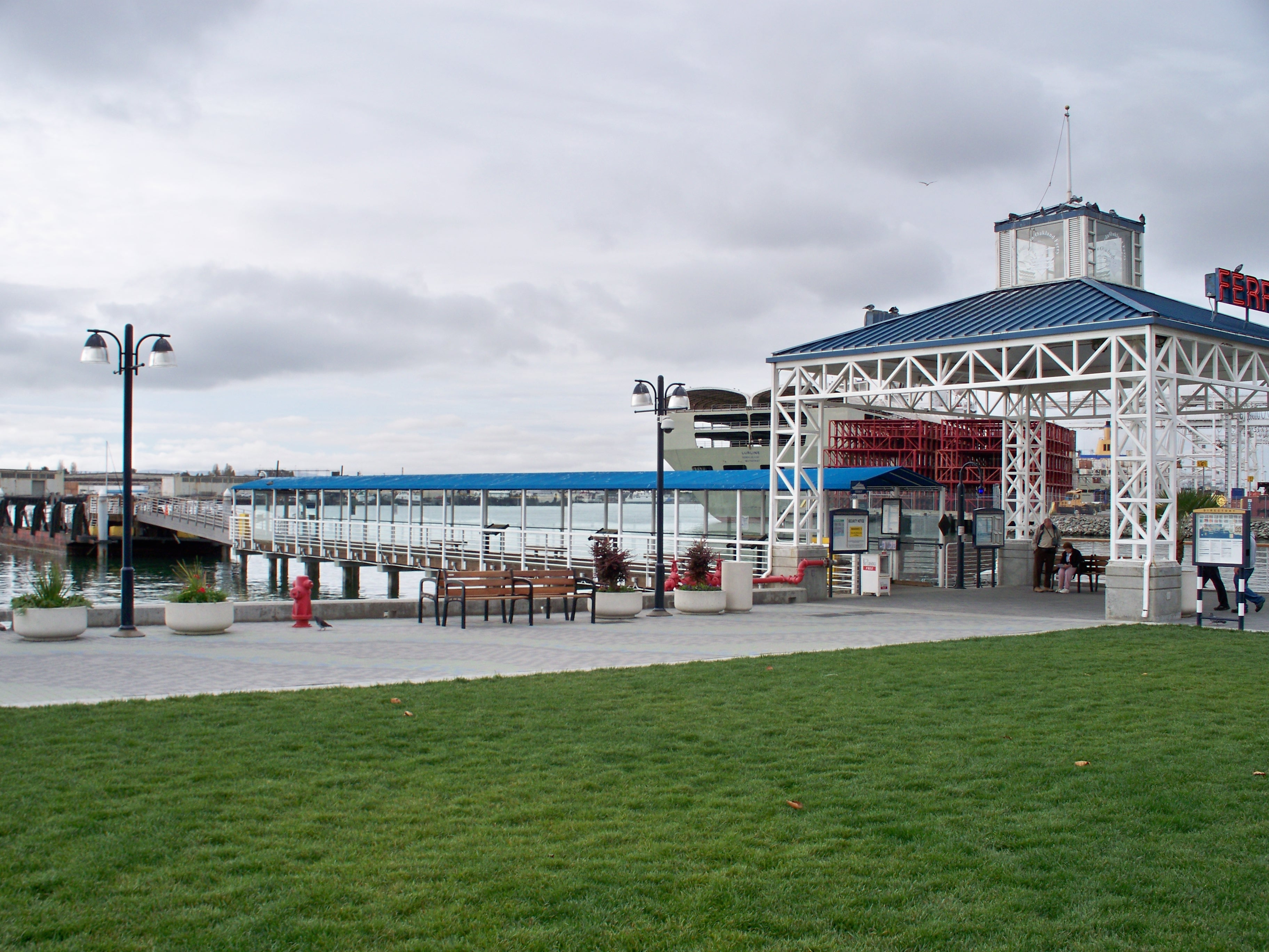 The Oakland Ferry terminal at Jack London Square